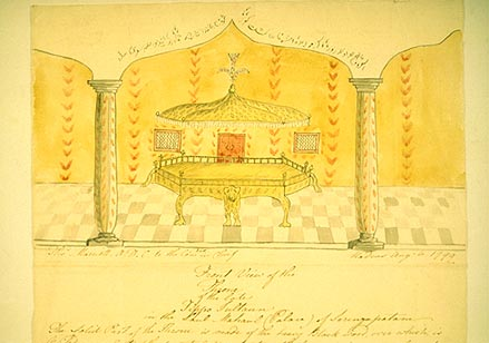 "Front View of the Throne of the Late Tippo Sultaun in the Laul Mahaul (Palace) of Seringapatam, 1799", Pen and ink, and watercolour 32.2 x 20.5 cm